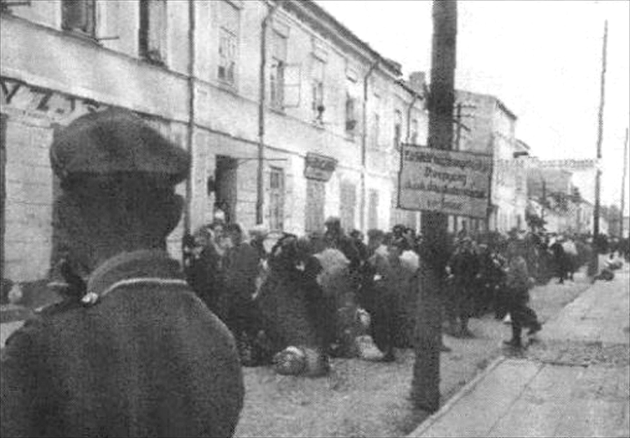 A photo of Holocaust ghetto liquidation action in Nazi occupied Poland conducted in Biała Podlaska in 1942 by the Reserve Police Battalion 101 along the ul. Stanislawa Moniuszki street – one of several collection points for local Jews destined for deportations to death camps.